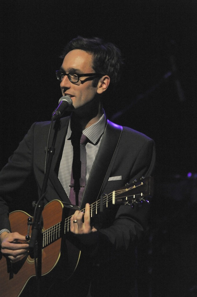 Singer/songwriter David Myles in performance at Brock University's Sean O'Sullivan Theatre, on November 17, 2011. Photo credit: Bob Magee.